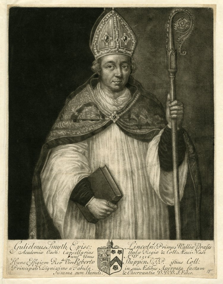 "Portrait of William Smith, founder of Brasenose College, Oxford," mezzotint, by the British printmaker John Faber the Elder. Courtesy of the British Museum, London.